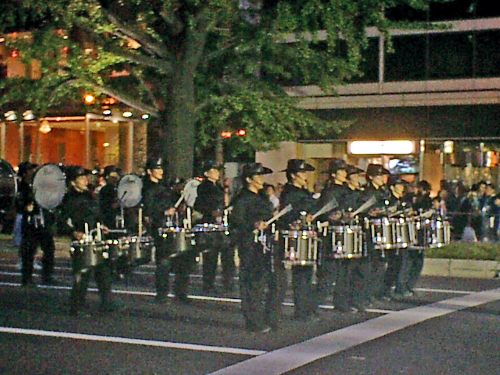 2006Midōsuji Parade meets Shijonawate Gakuen High School Brass Band Team at Namba